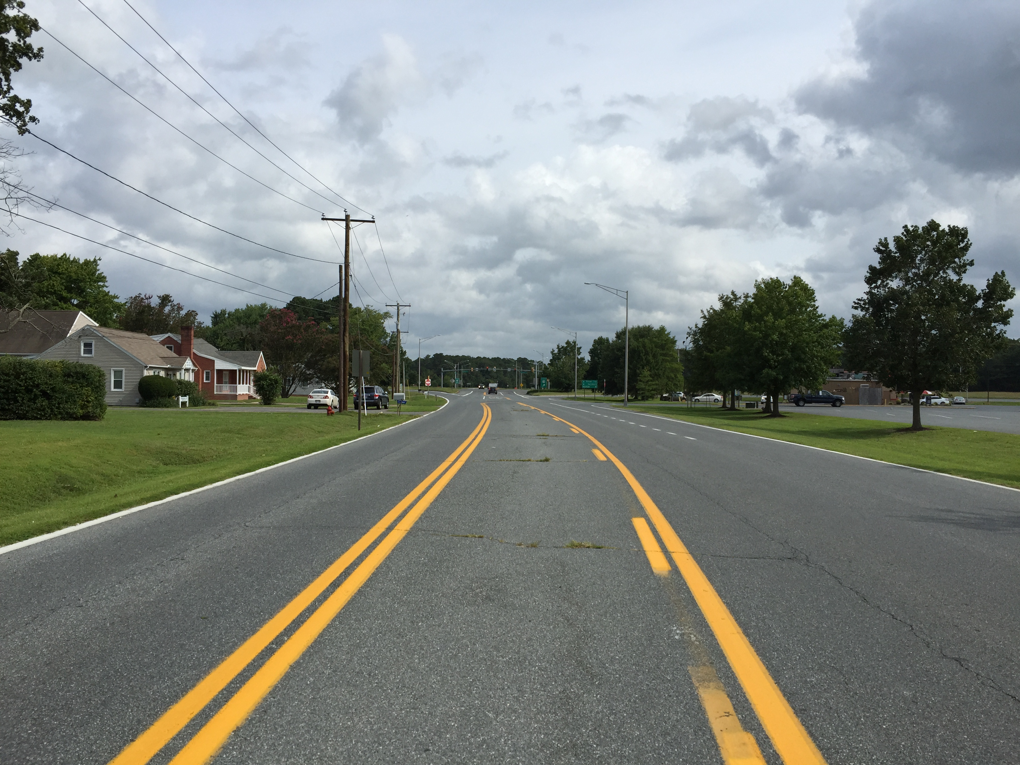 View north along Maryland State Route 250 (Old Virginia Road) at U.S. Route 13 Business (Market Street) in Pocomoke City, Worcester County, Maryland